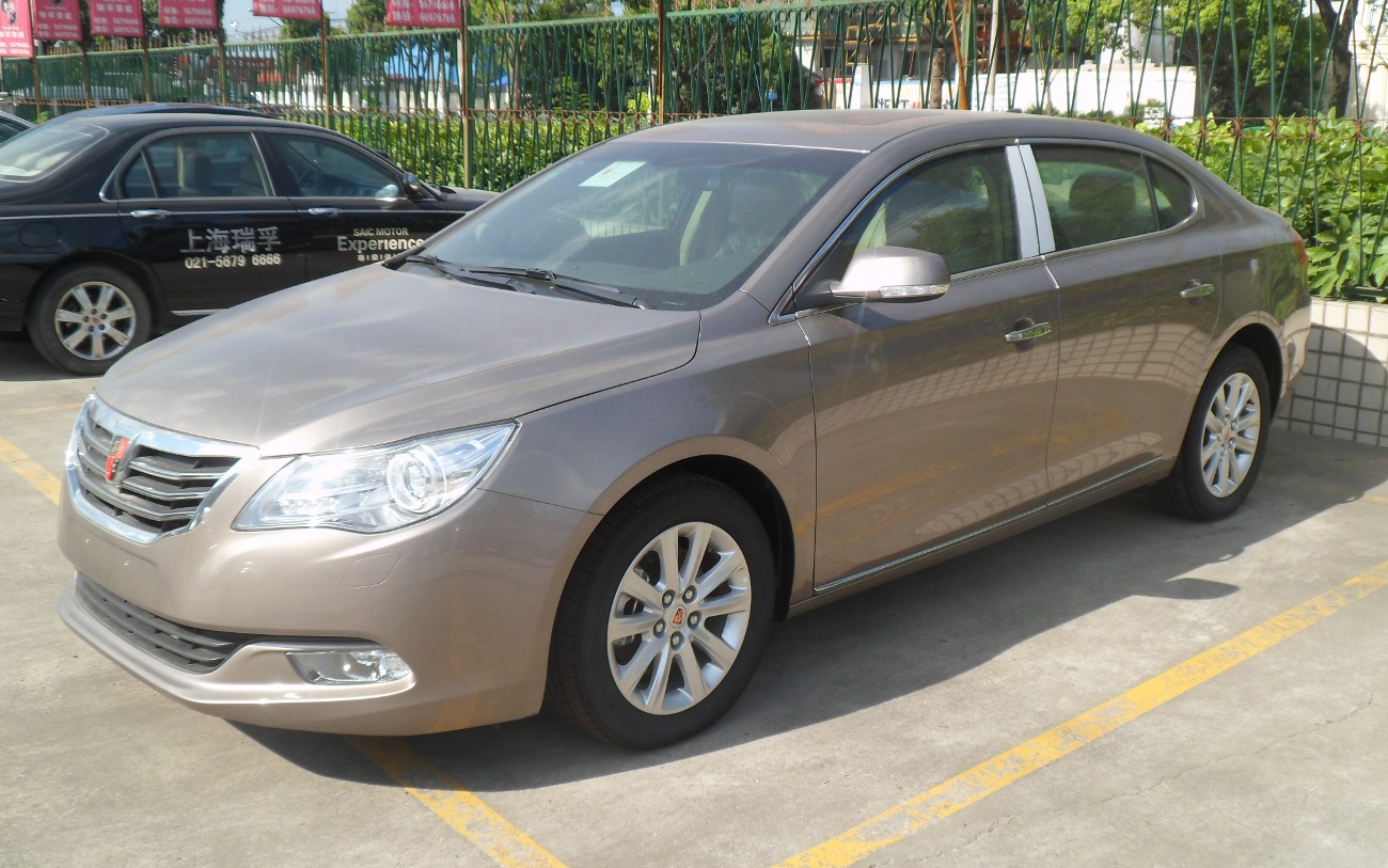 Roewe 950 photographed in Shanghai, China.